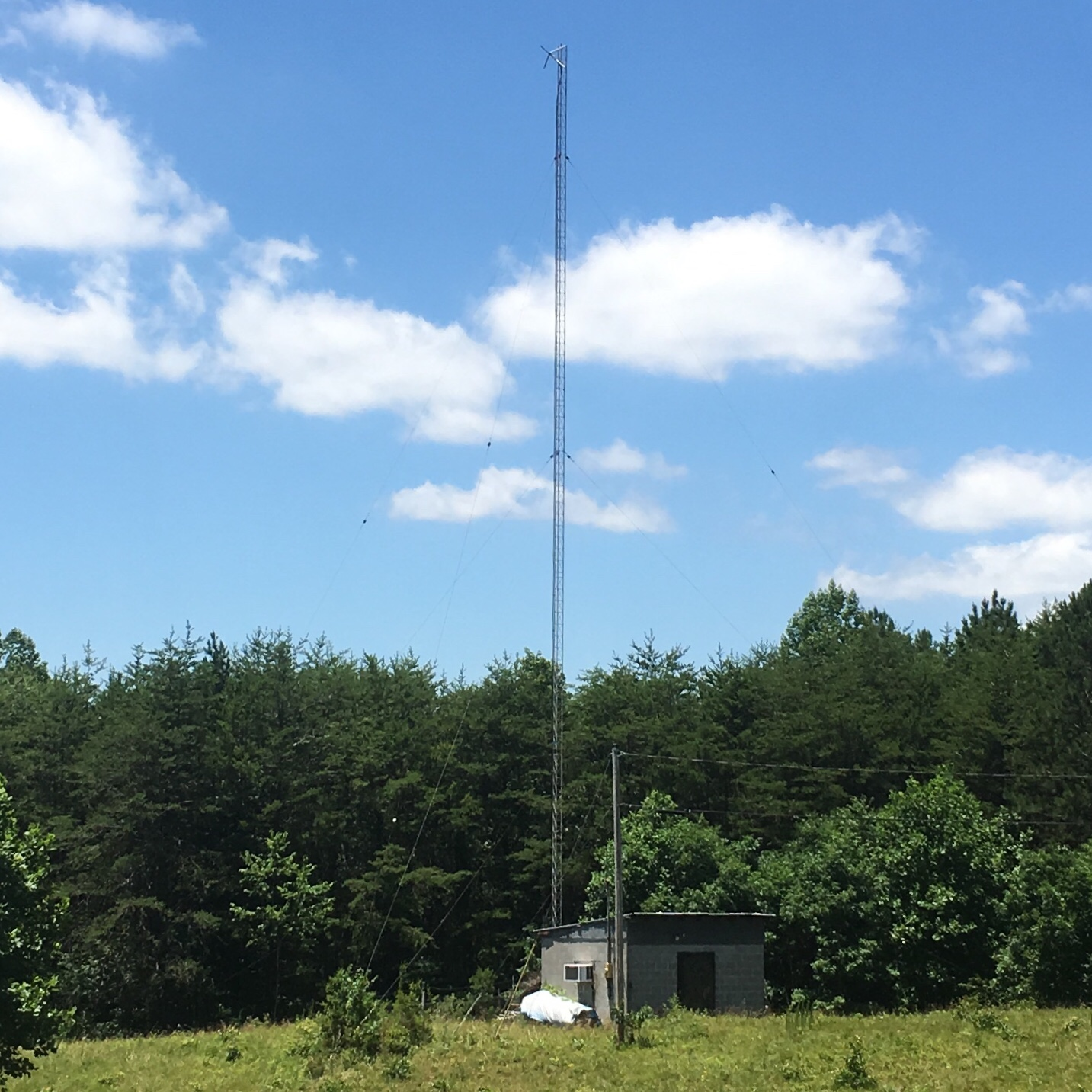 WGTJ-AM antenna tower and transmitter in Murrayville, Georgia, USA as seen looking west from McKinney Road